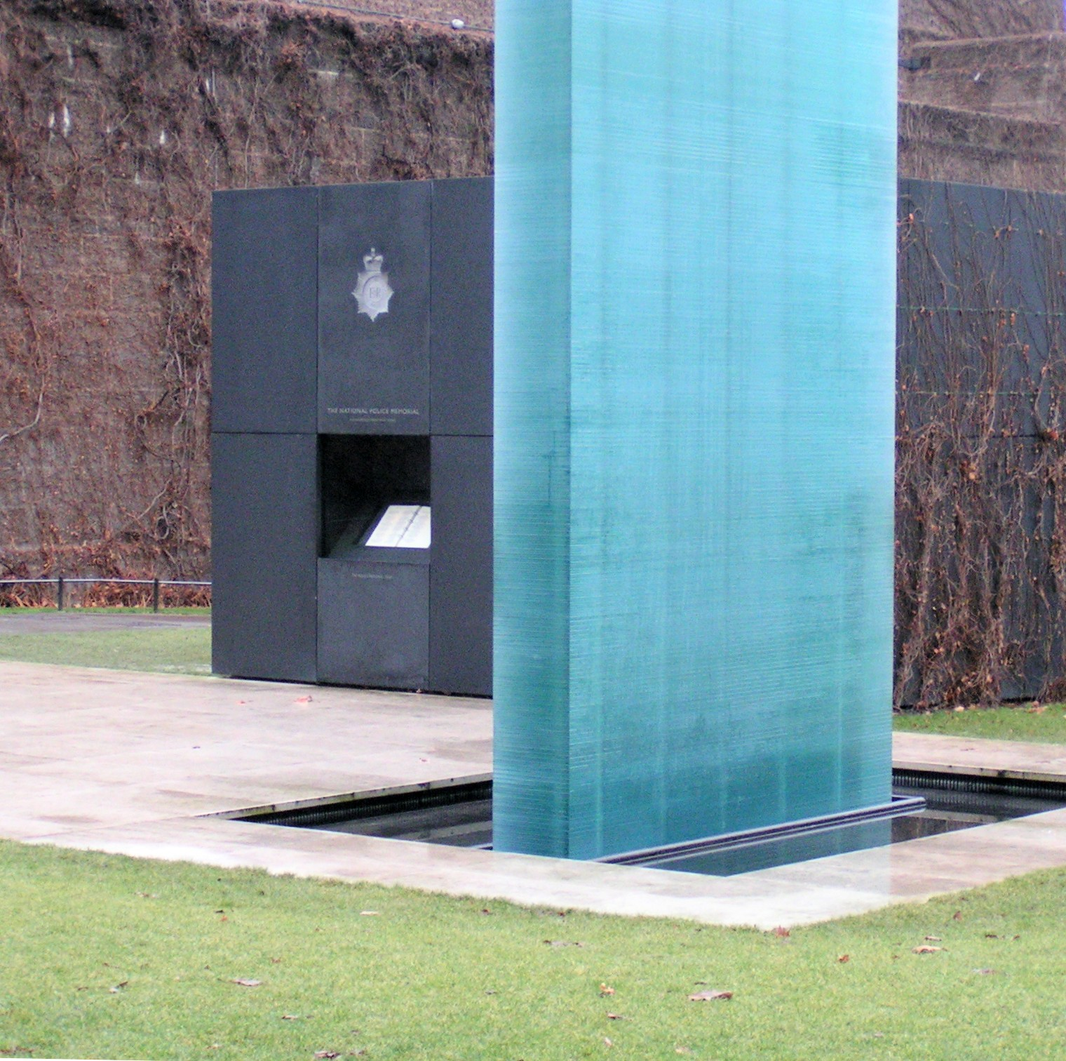 Police National Memorial, London. Photographed by James Gray 17th January 2006